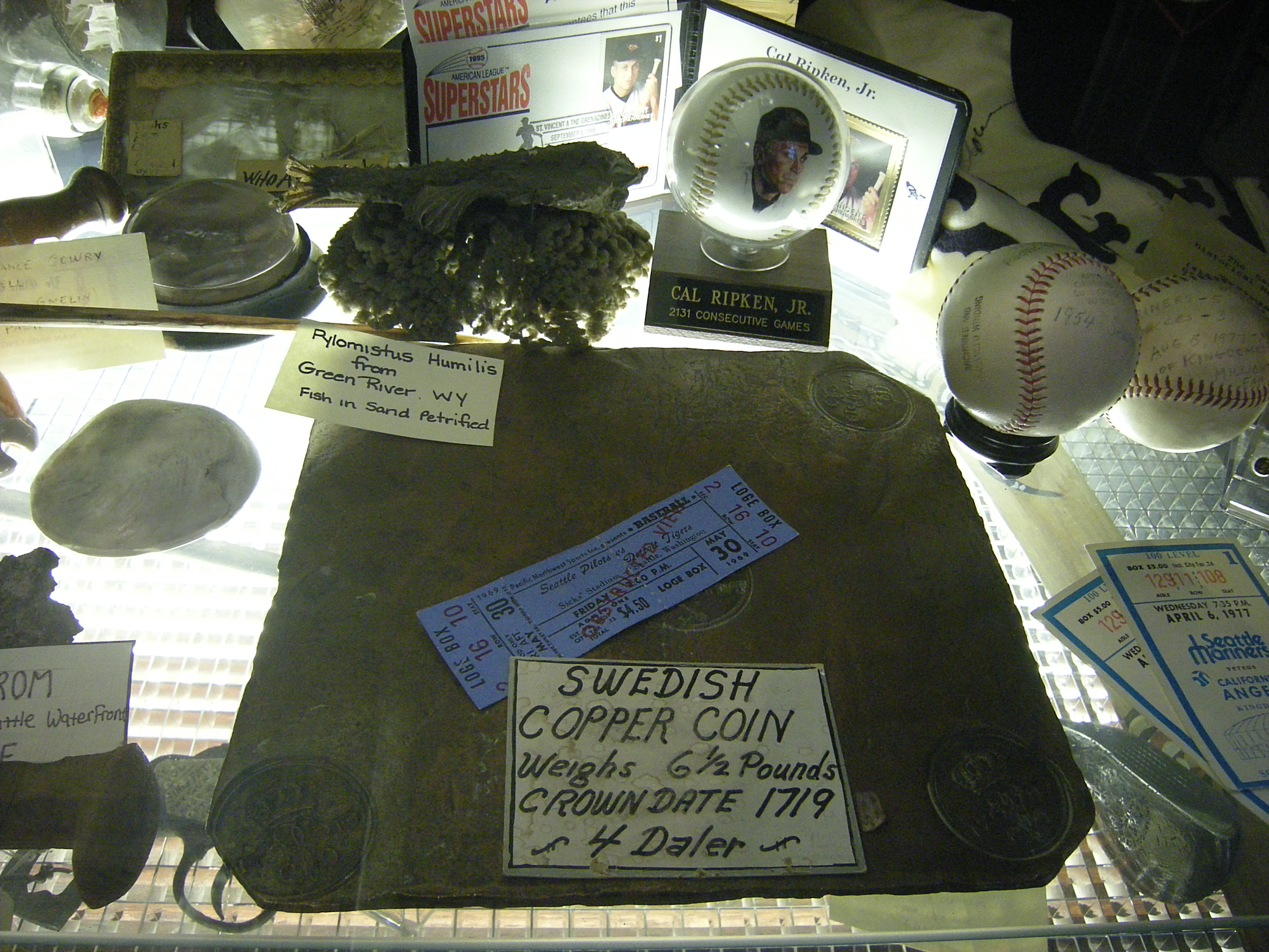 Miscellaneous objects in the permanent collection of Ye Olde Curiosity Shop, Seattle, Washington. Among other things, a big copper "coin" from Sweden, and various baseball memorabilia.